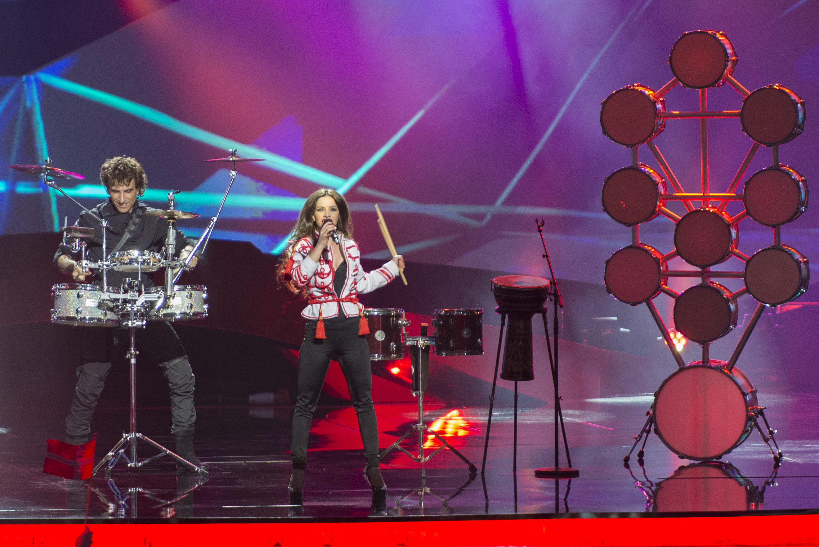 Elitsa Todorova and Stoyan Yankoulov representing Bulgaria with the song "Samo shampioni" (Само шампиони) during the second dress rehearsal of the second semi final of the Eurovision Song Contest 2013 in Malmö. (Help translate this text)